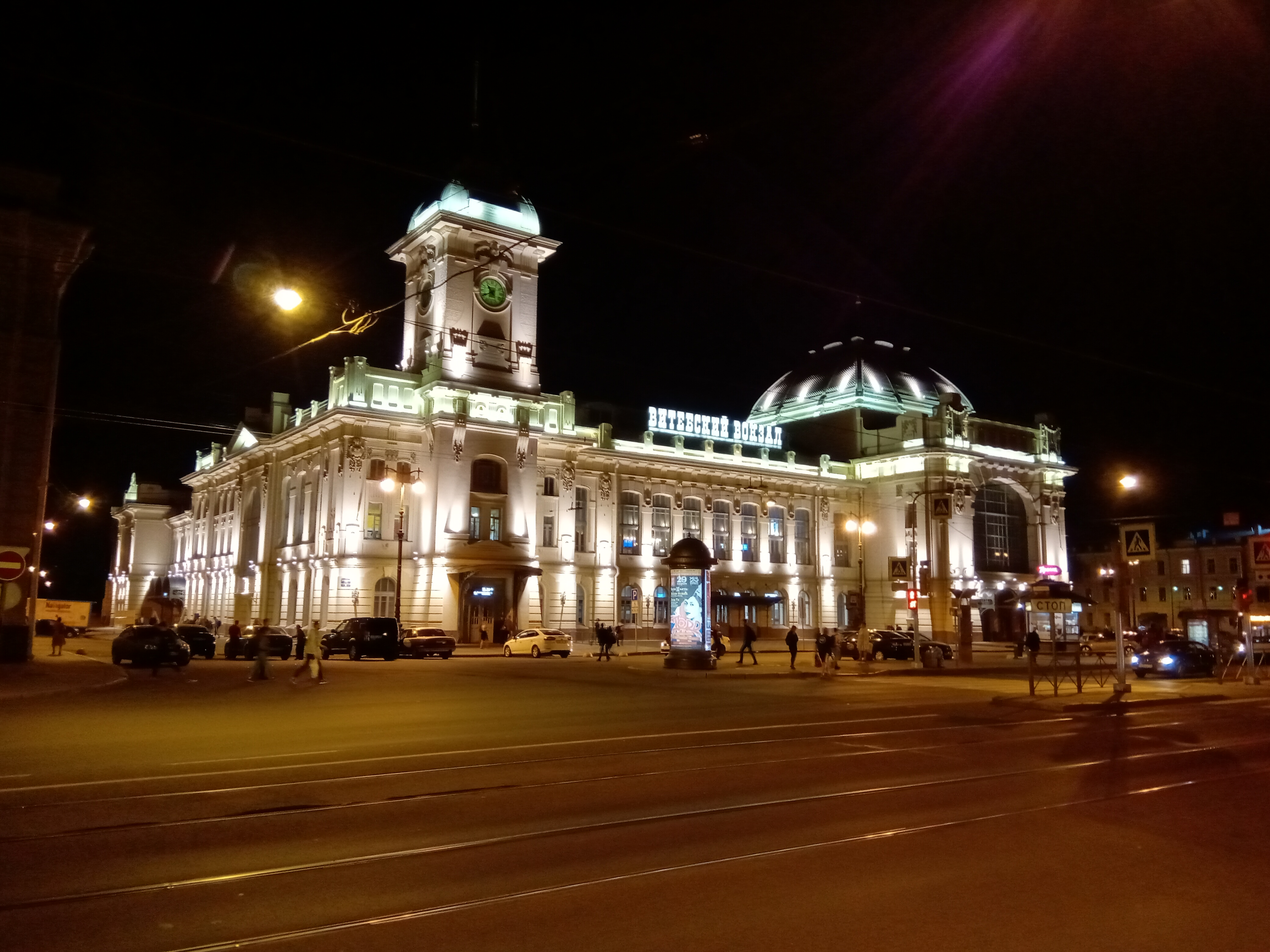 Vitebsky railway station at night